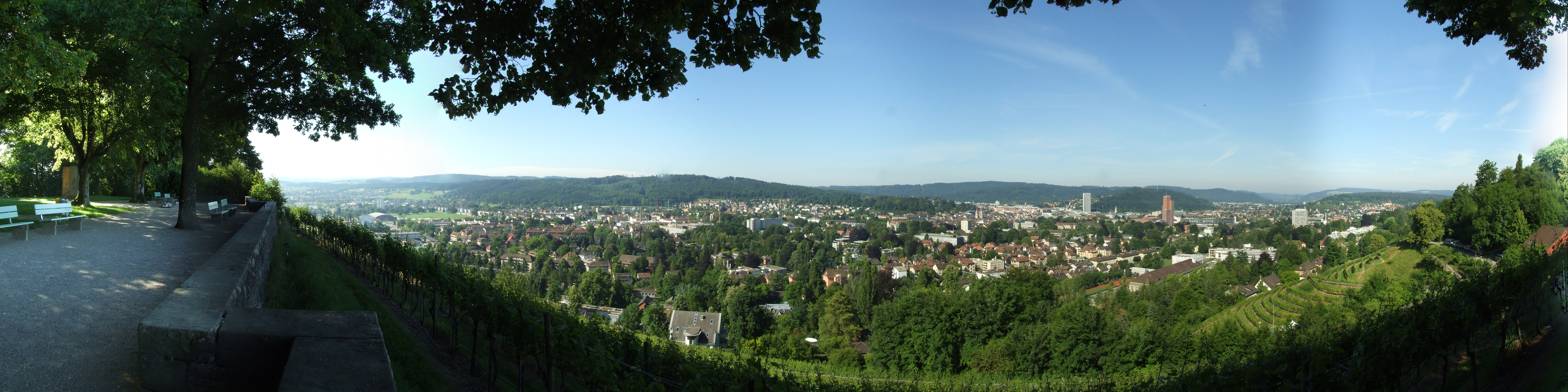 The view from the "Bäumli Park" to the Gardencity Winterthur Switzerland